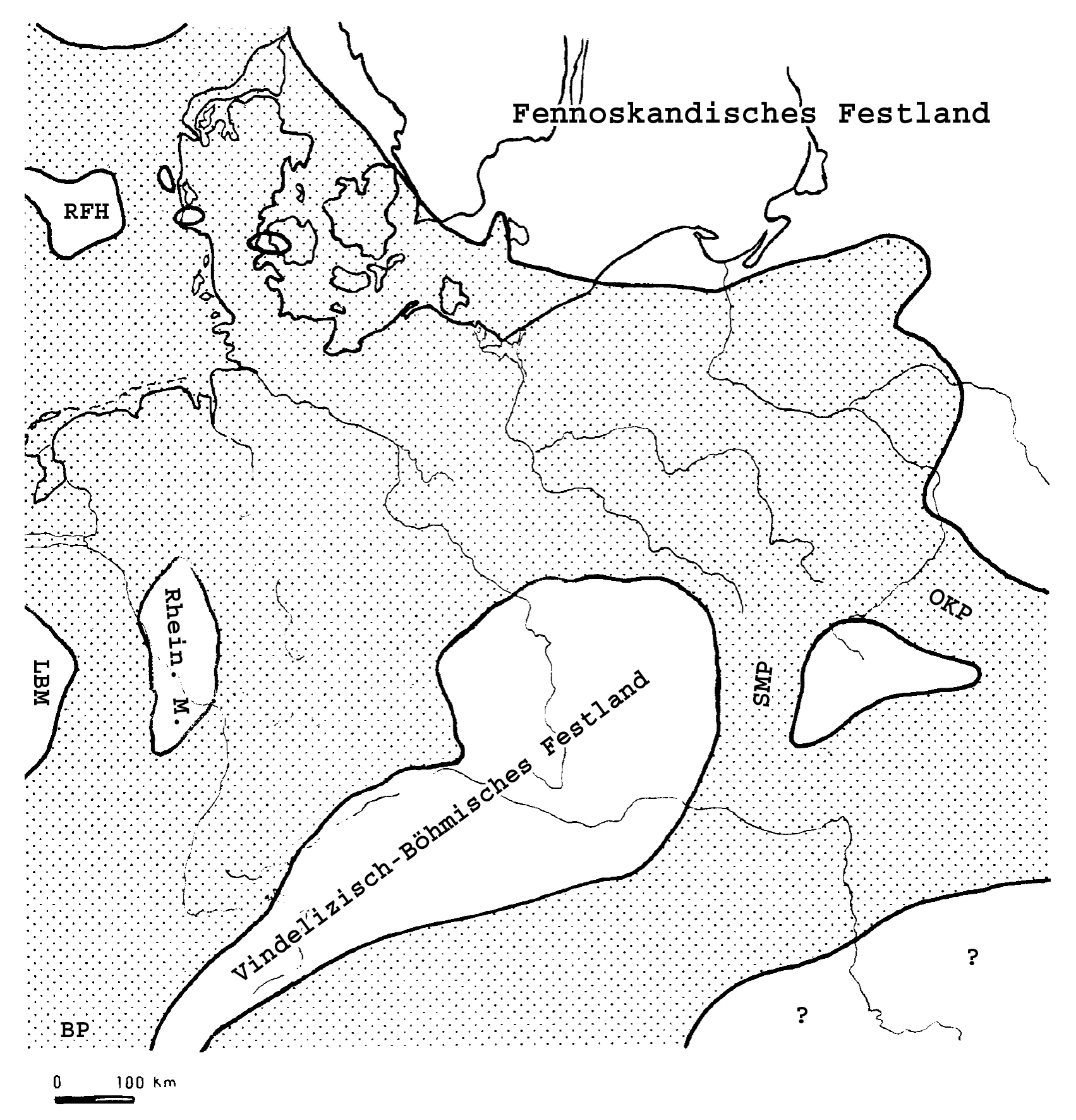 Paleogeographic map of the Lower Muschelkalk (Anisian of Central Europe). Abbreviations: BP = Burgundy Gateway; LBM = London-Brabant Massif; OKP = East Carpathian Gateway; Rhein. M. = Rhenish Massif; RFH = Ringkøbing-Fyn High; SMP = Silesian-Moravian Gateway.